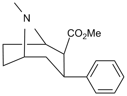 Drawn to try and mimic the way that RTI draws it.